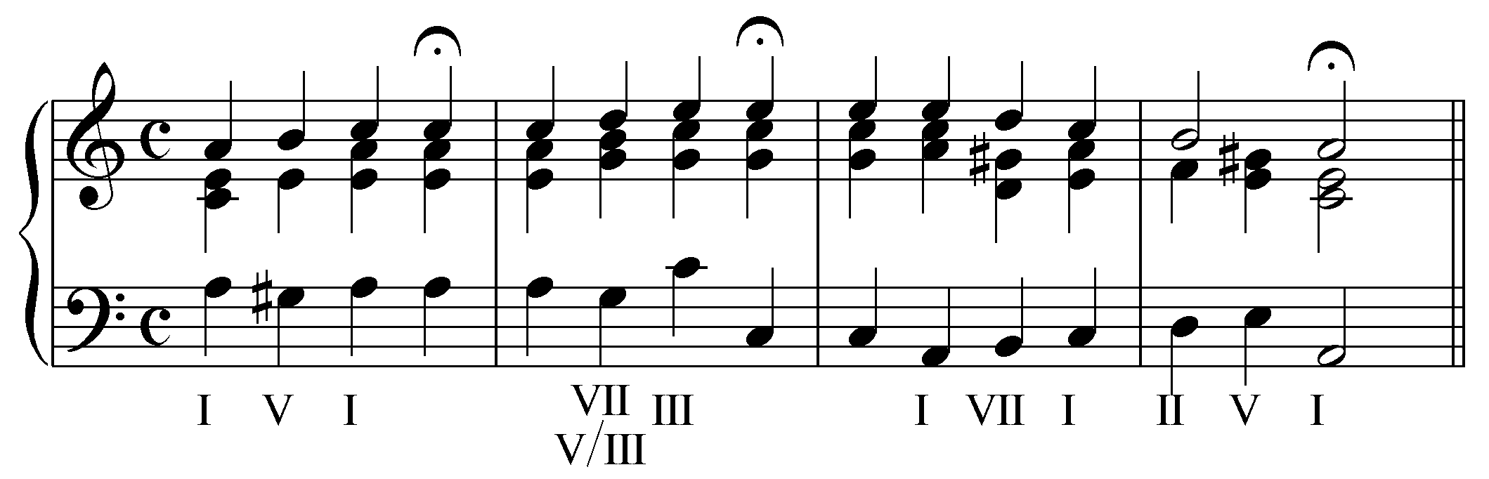 An example of how the subtonic serves as a secondary dominant to the mediant (in A minor: G is the dominant of C). From Bach's Chorale Ach wie flüchtig, ach wie nichtig, BWV 26. It is a reduction of the opening of the "Choral" or sixth movement.